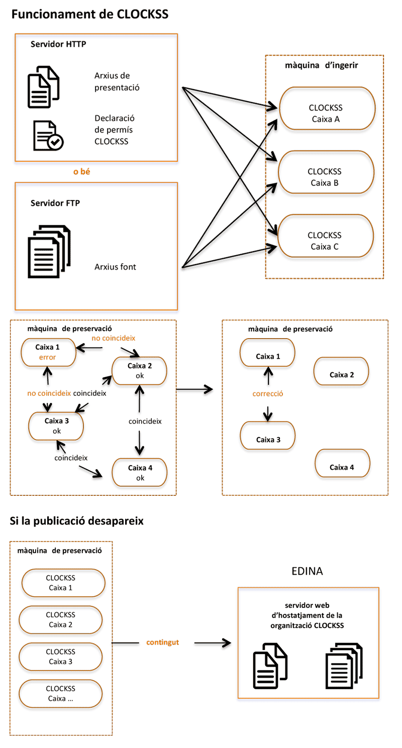 a flowchart about how Clockss works